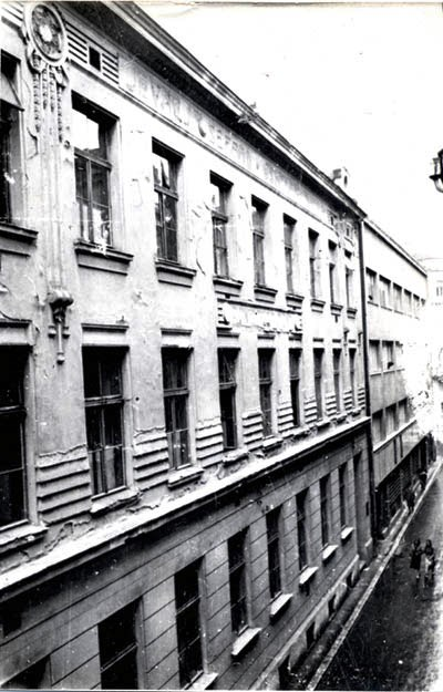 Sarajevo Jewish Rabinic seminary